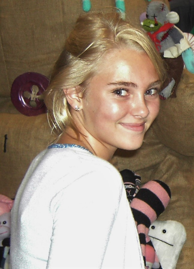 AnnaSophia Robb